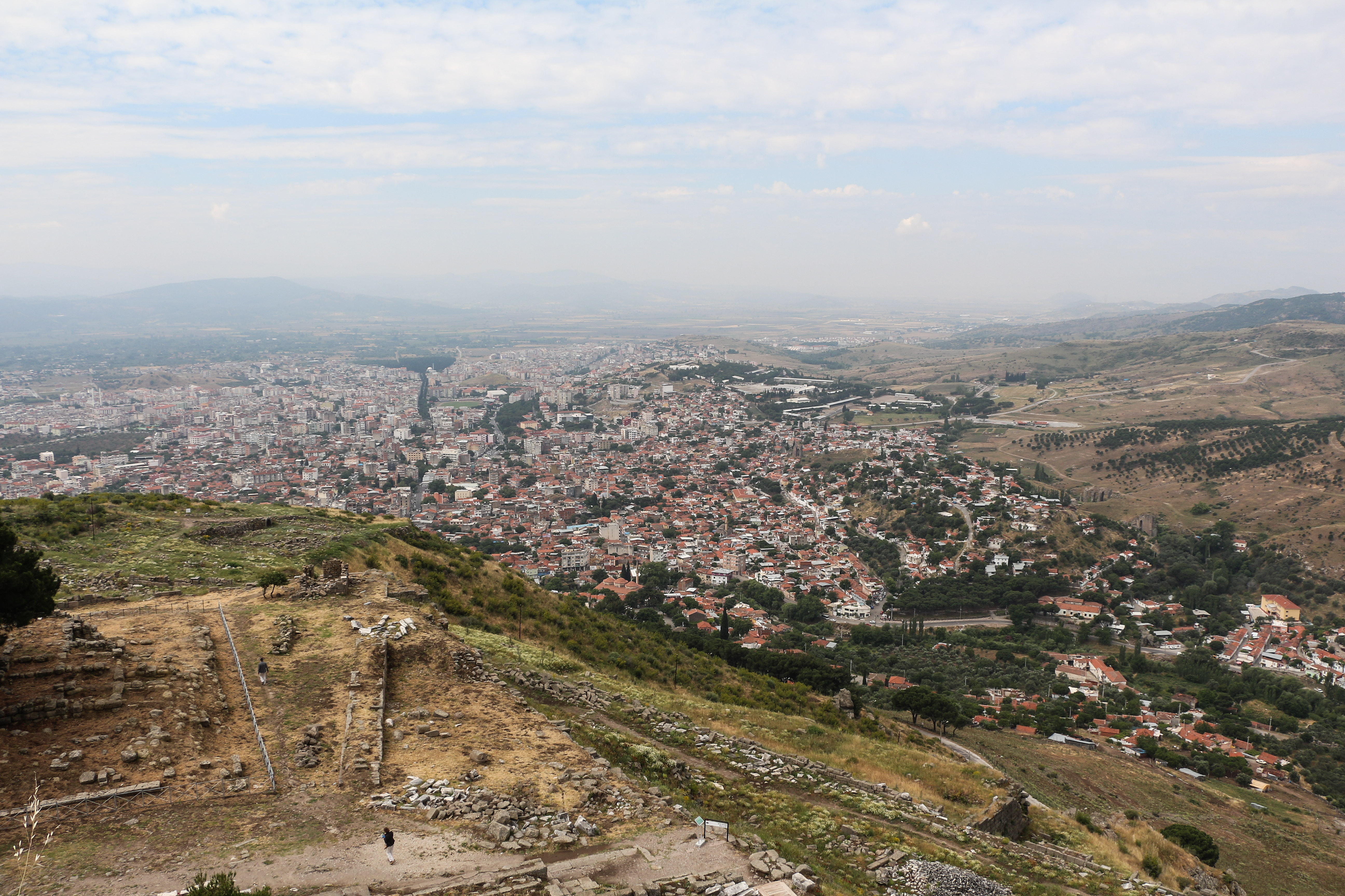 View of Bergama, Turkey